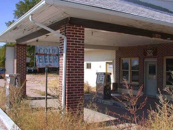 Shuttered gas station along U.S. Highway 30 west of North Platte, Nebraska (taken Oct. 4, 2004). Â© 2004 Matthew Trump